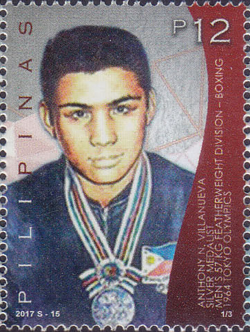 Philippine Olympic Silver Medalists